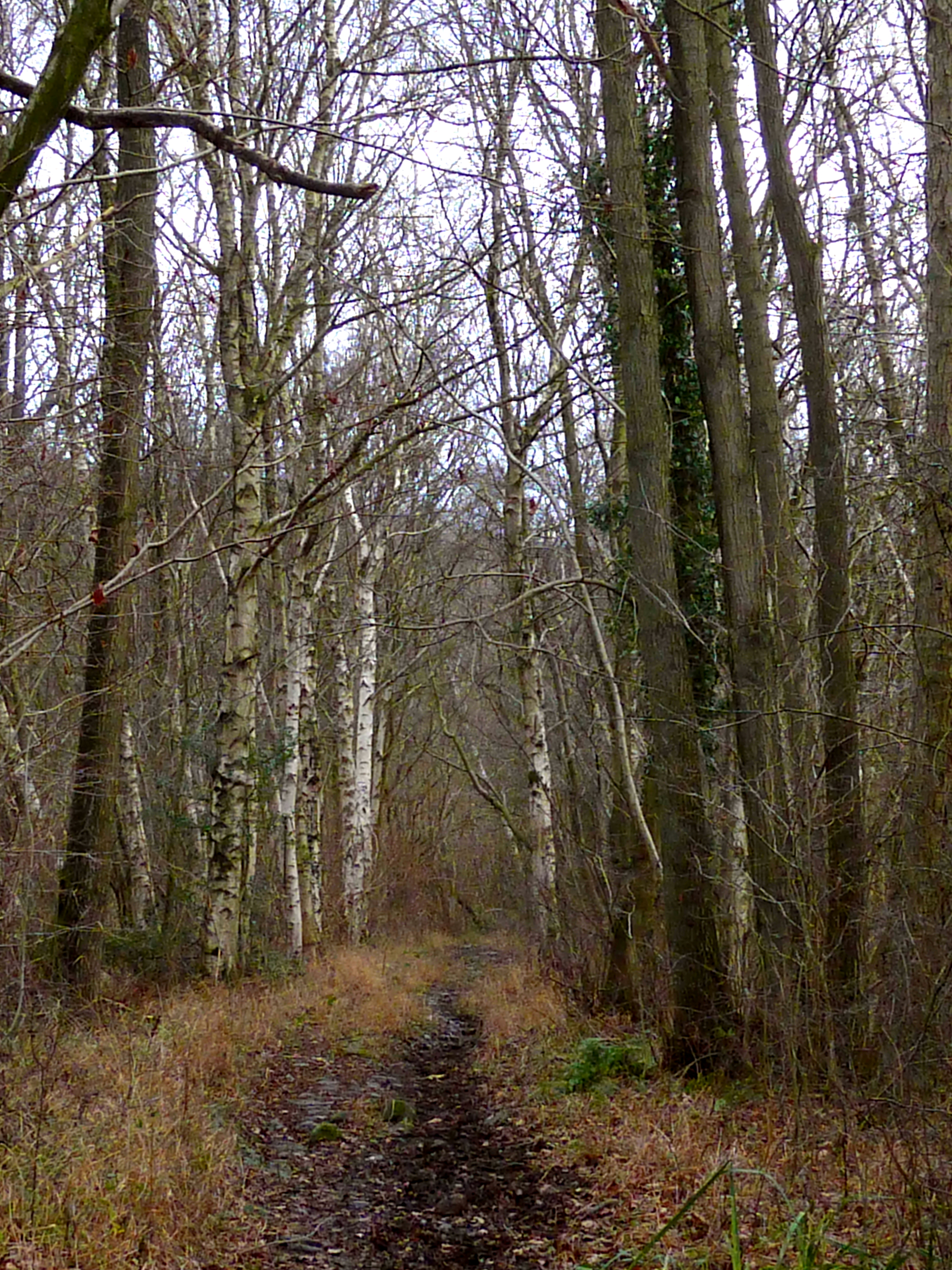 Cow Myers, Site of Special Scientific Interest (SSSI), between Ripon and Kirkby Malzeard, North Yorkshire, England. This site consists of fen (wetland with reeds) encircled by carr (wetland with trees). There is no public access or vehicle access to this site. Showing deer path with silver birches.